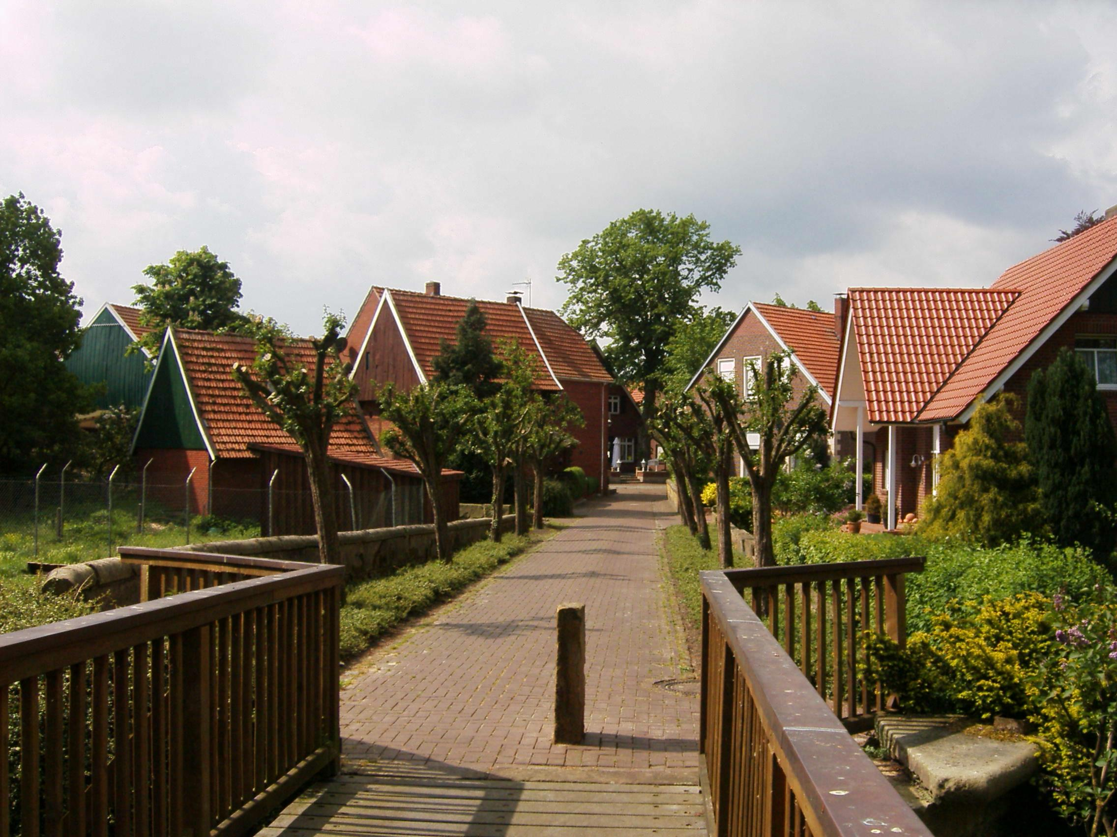 Way from the Vechtebrücke into the middle of Ohne